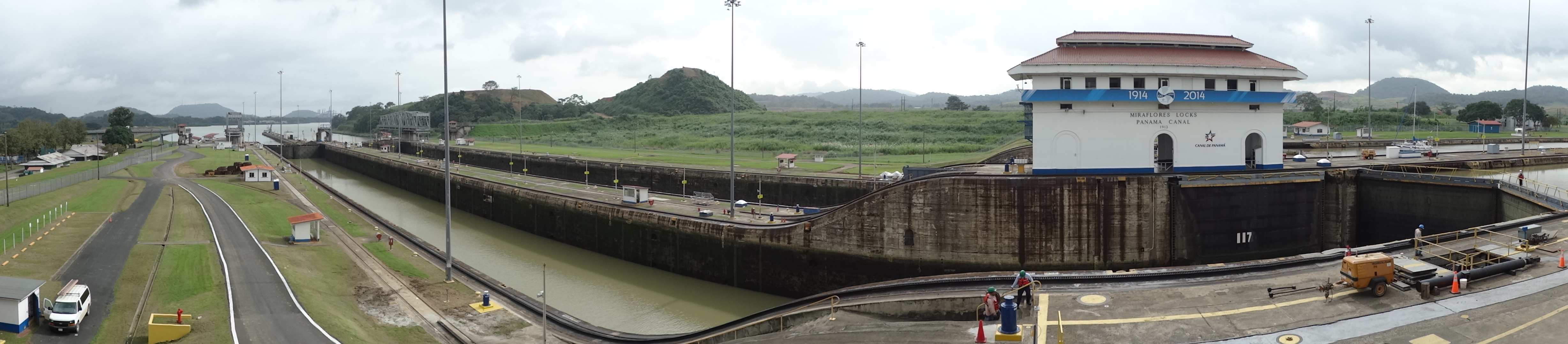 Panorama of Miraflores Locks - From Visitor's Center - Panama Canal - Panama.